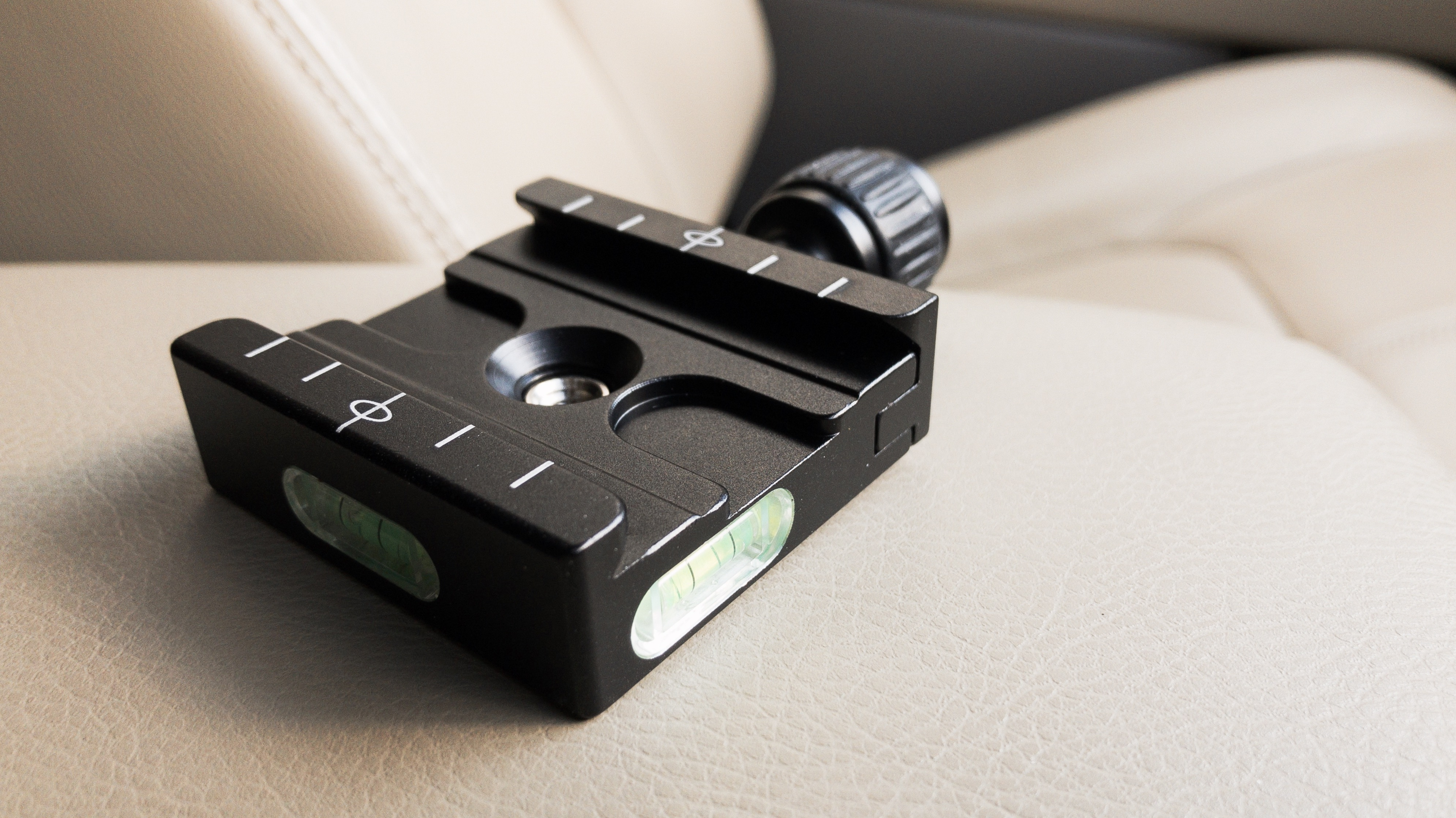 NEEWER Arca Swiss convertible plate.